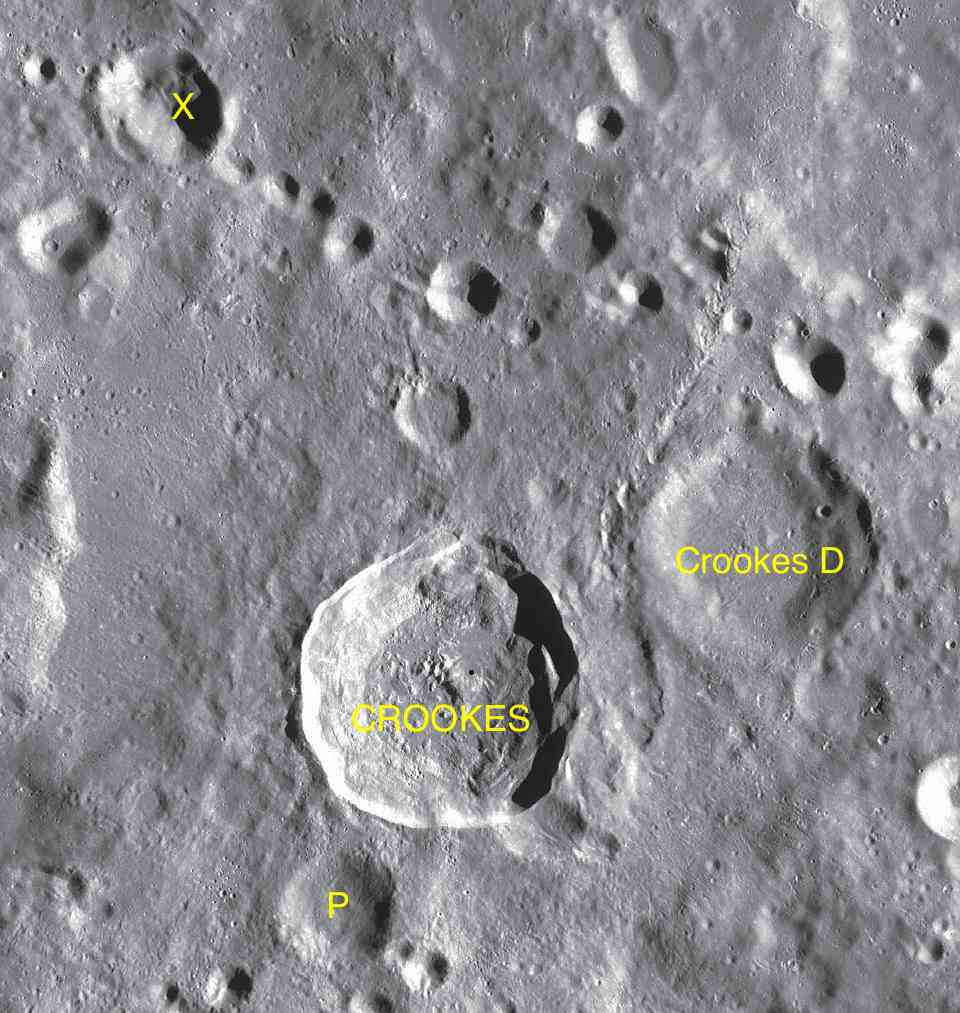 Part of the chart LAC-87 used for the presentation.